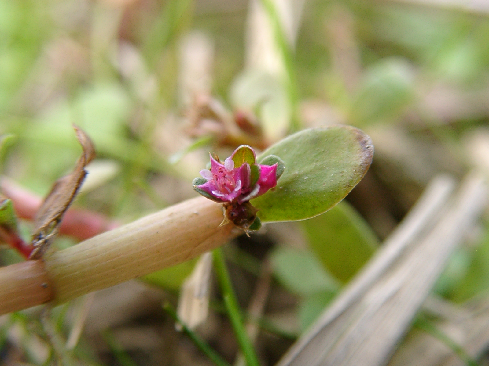 Rotala indica var. uliginosa flower at Ooi-machi, Japan.